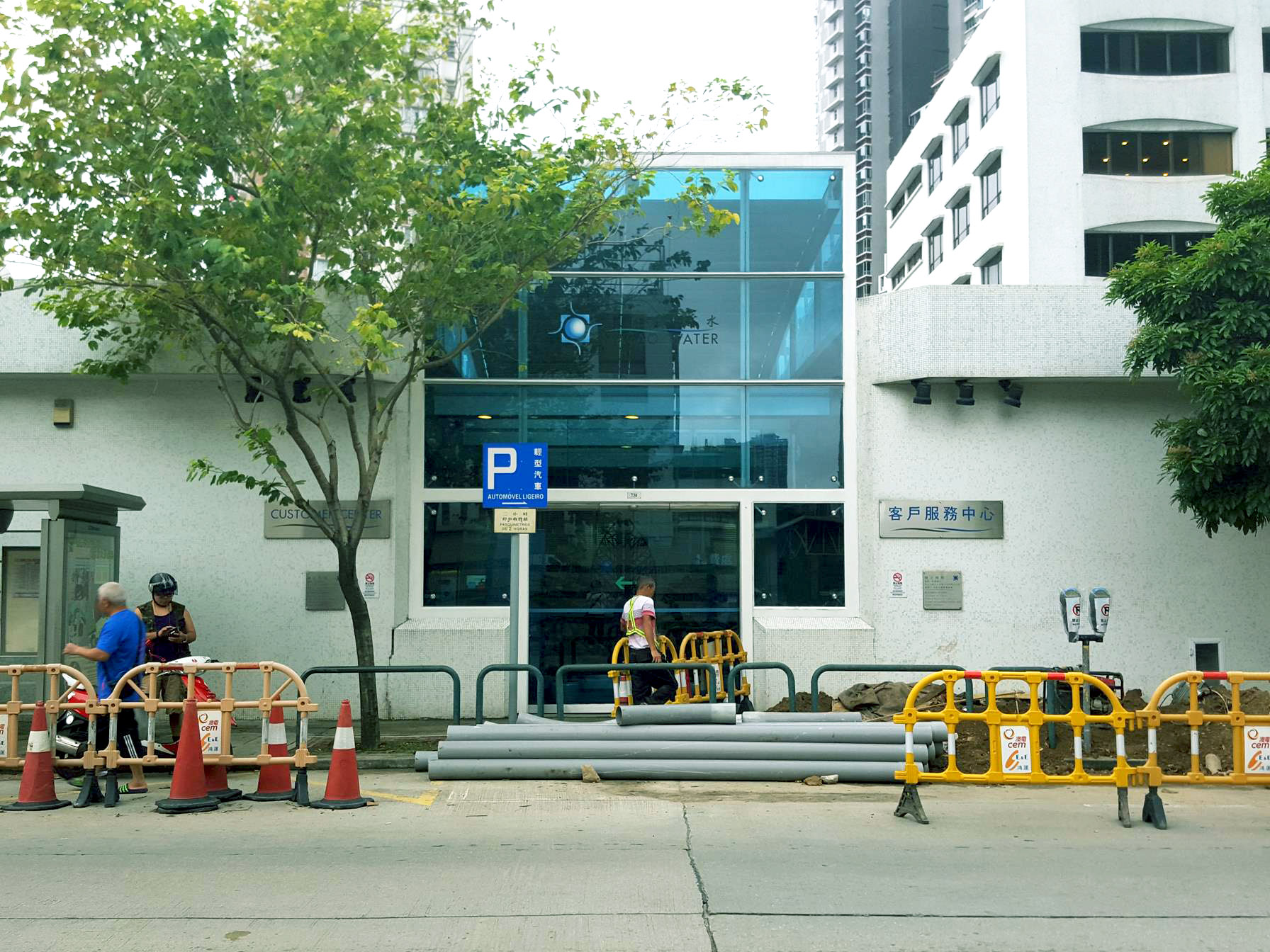 Customer Service Centre, Macau Water